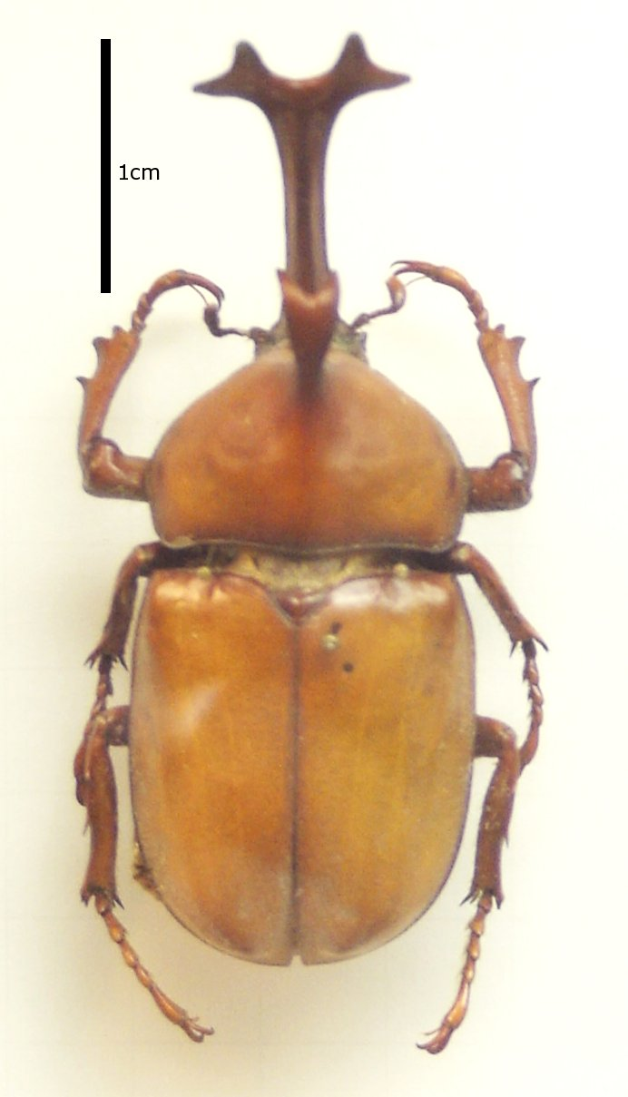 Trypoxilus dichotomus (Scarabaeidae), mounted specimen from Japan.